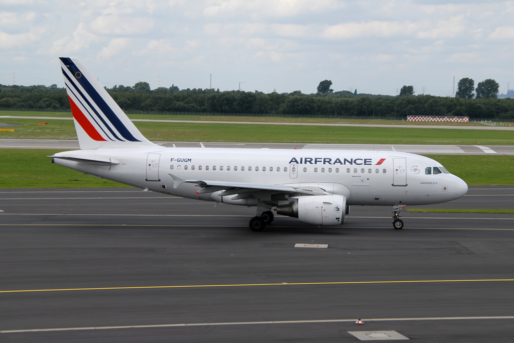 F-GUGM Airbus A318-111 msn 2750 operated by Air France and seen at Dusseldorf (DUS/EDDL).